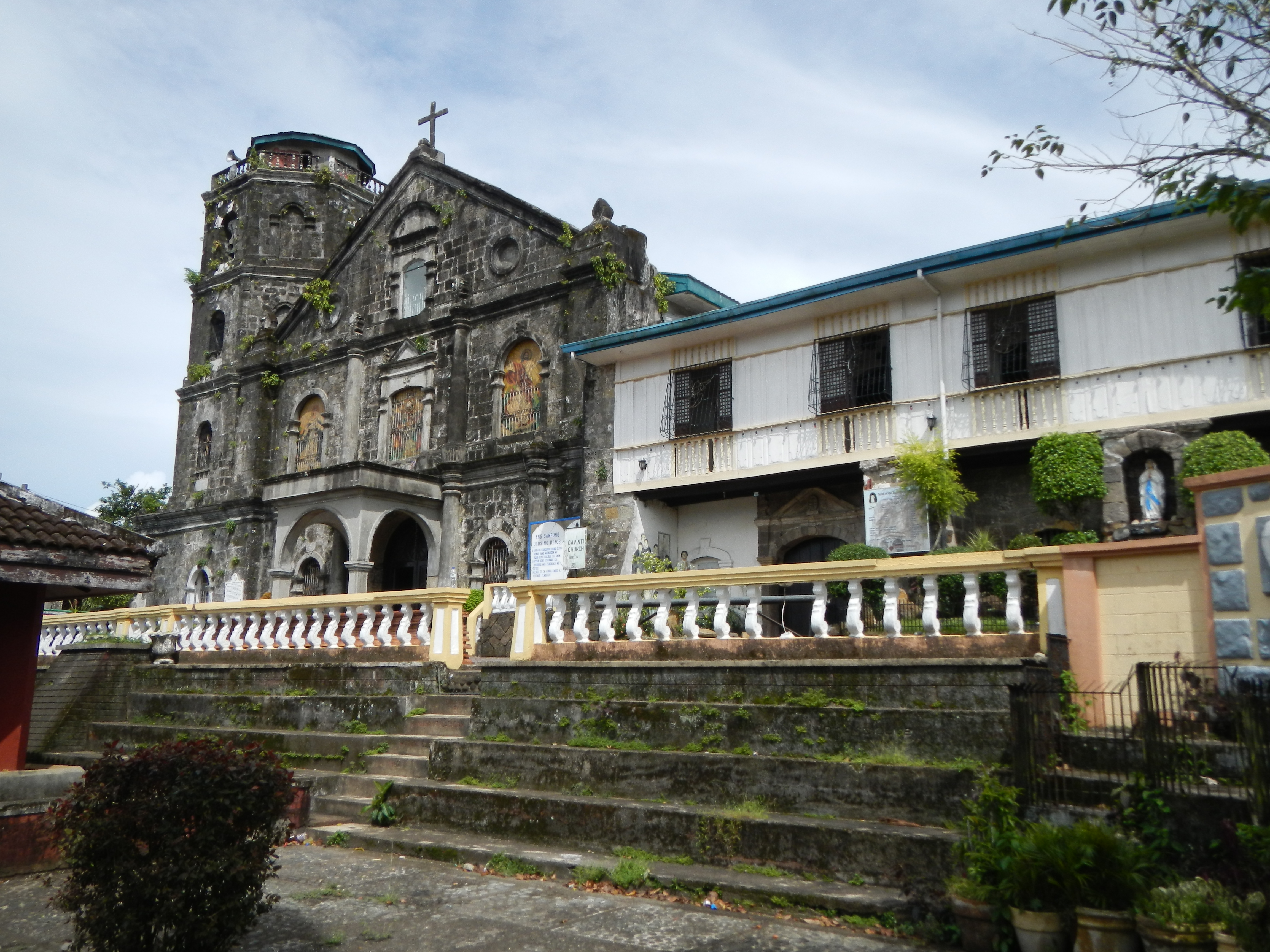 UploadWizard photos -- (General description, 3-dimension angle by angle photography of this town, church & landmarks) -- of the (at J. Oflaria St. cor. General Cailles st.) -- Transfiguration of Our Lord Parish Church of Cavinti, Laguna,[1] belongs to the Vicariate of Our Lady of Guadalupe, Roman Catholic Diocese of San Pablo[2] [3] Coordinates: 14°14'42"N 121°30'26"E [4] (El Salvador del Mundo) Feast Day: August 6 The titular Patron and Father of Cavinti [5] [6]Latitude: 14°14'42.36" Longitude: 121°30'27" [7] & surrounding - Public market, WWII Veterans Memorial, Statue, Town hall, Covered Cour in -- Cavinti, Laguna,[8].